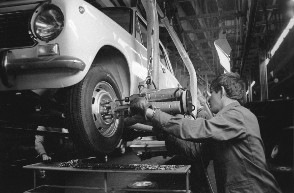 '«" AvtoVAZ "- Fábrica de Automóviles del Volga (VAZ)" AvtoVAZ "- Fábrica de Automóviles del Volga (VAZ) VAZ. Rusia, Moscú